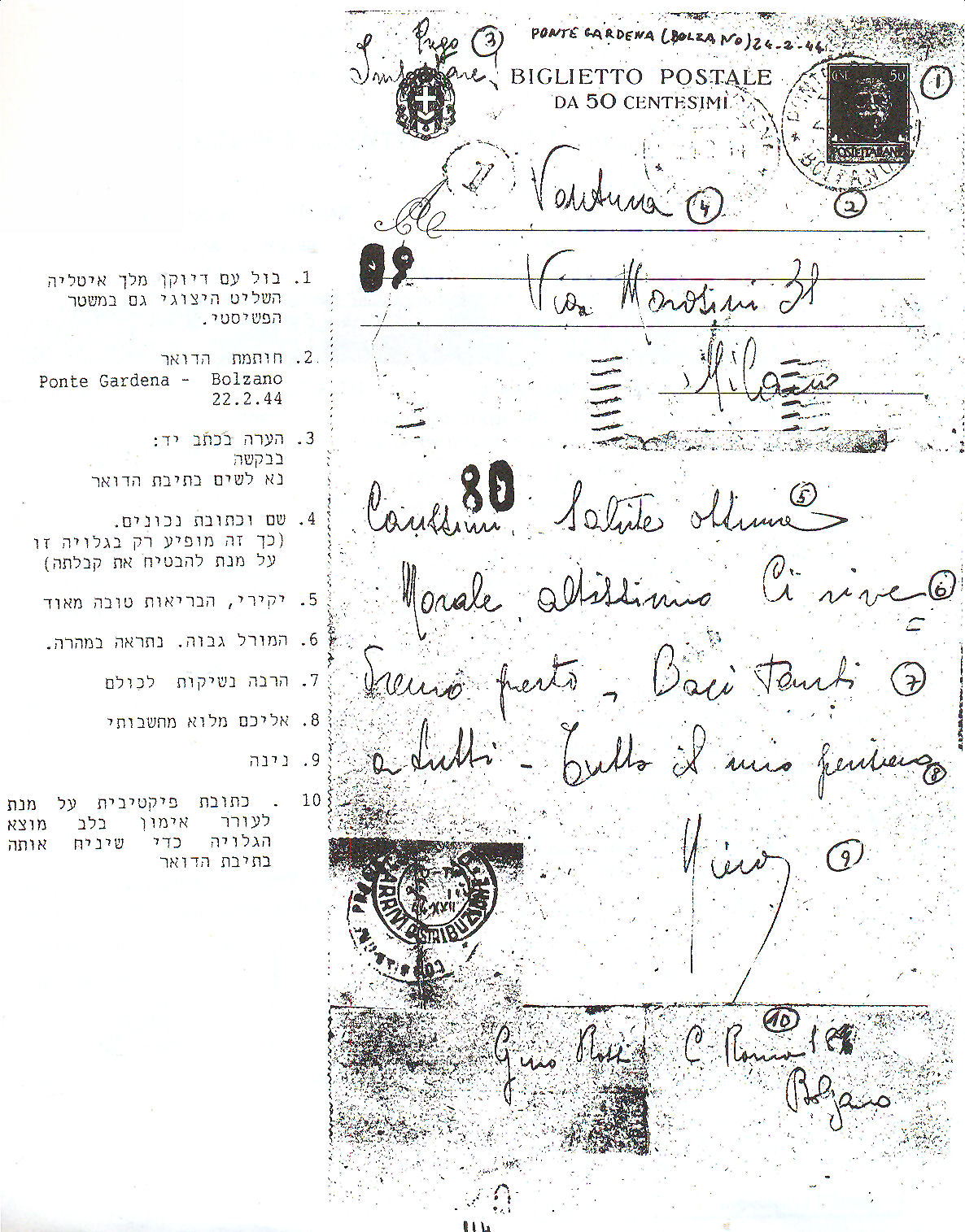 Letter from Berner pass by a Jewish Italian woman on the way to Auschwitz concentration camp.